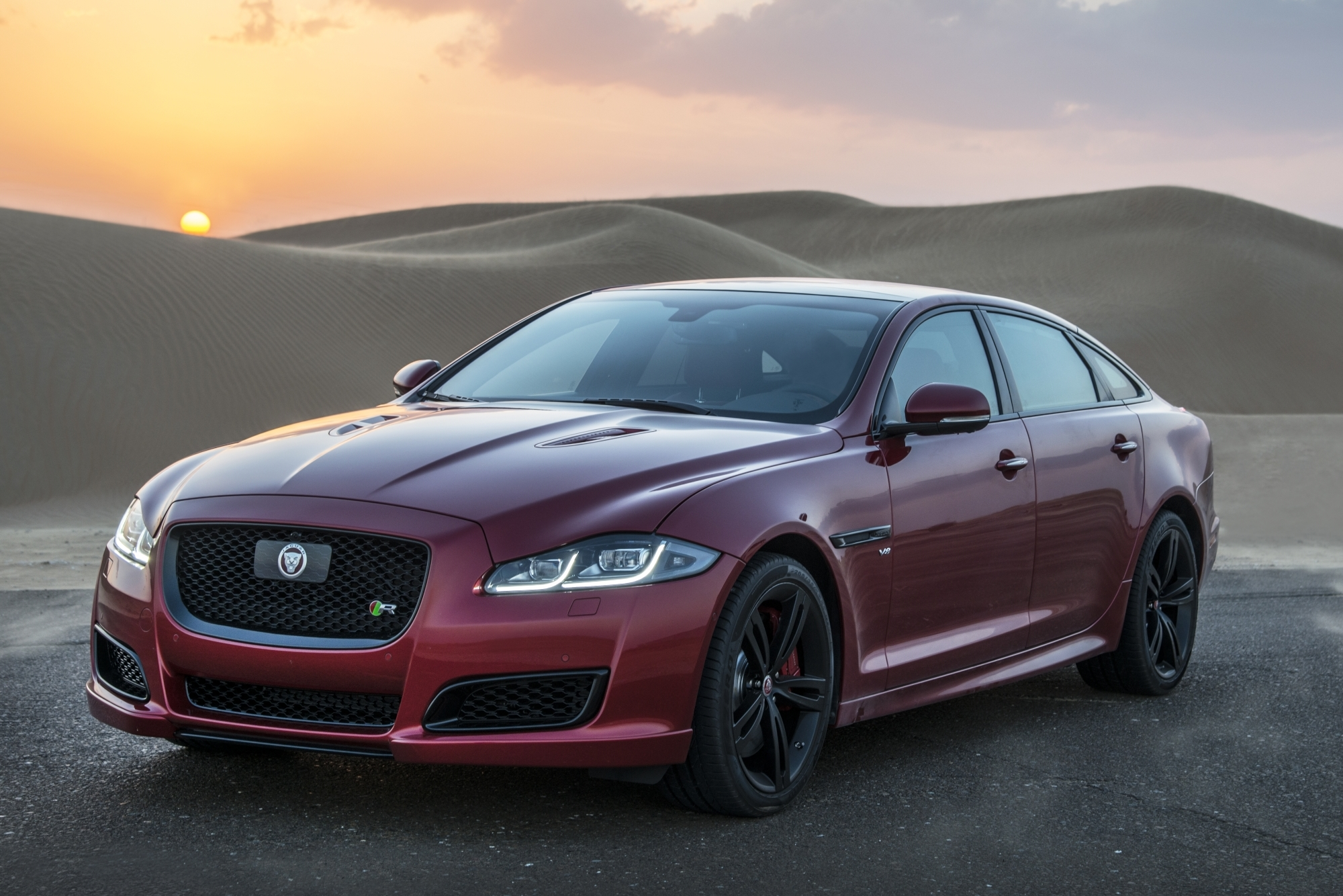 The Jetman Dubai pilot Yves Rossy, took on his first ever live race when he went head-to-head against a Jaguar XJR driven by former Formula One star Martin Brundle in a unique contest deep in the Dubai desert.